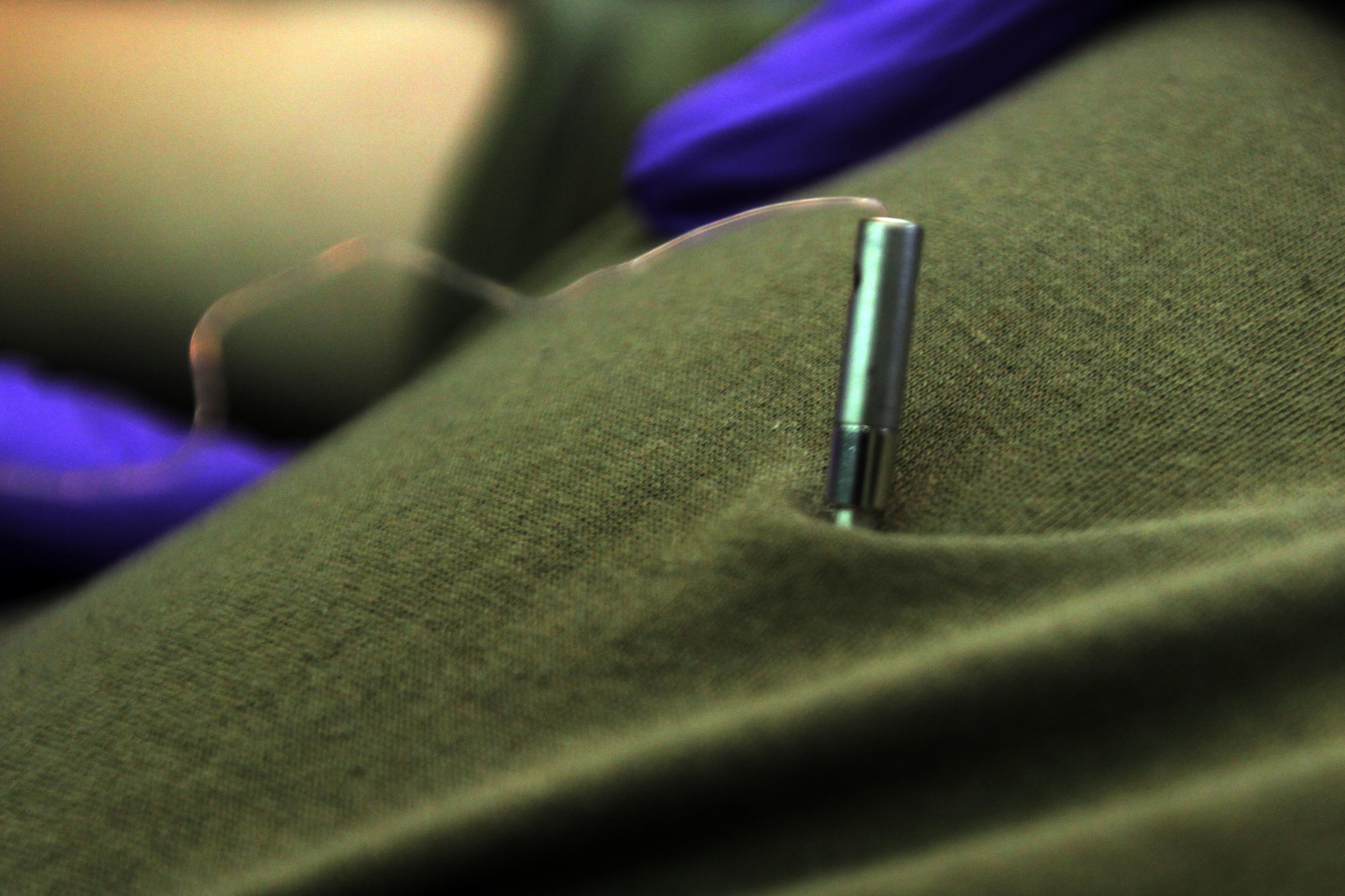 A Taser prong sticks out of Cpl. Mitchell Staats’ shirt after he was Tased during a nonlethal weapons exercise at Babadag Training Area, Romania, May 25. Staats is a member of scout platoon, Headquarters and Service Company, 1st Tank Battalion, and also was sprayed with Oleoresin Capsicum, more commonly known as pepper spray, during the exercise.